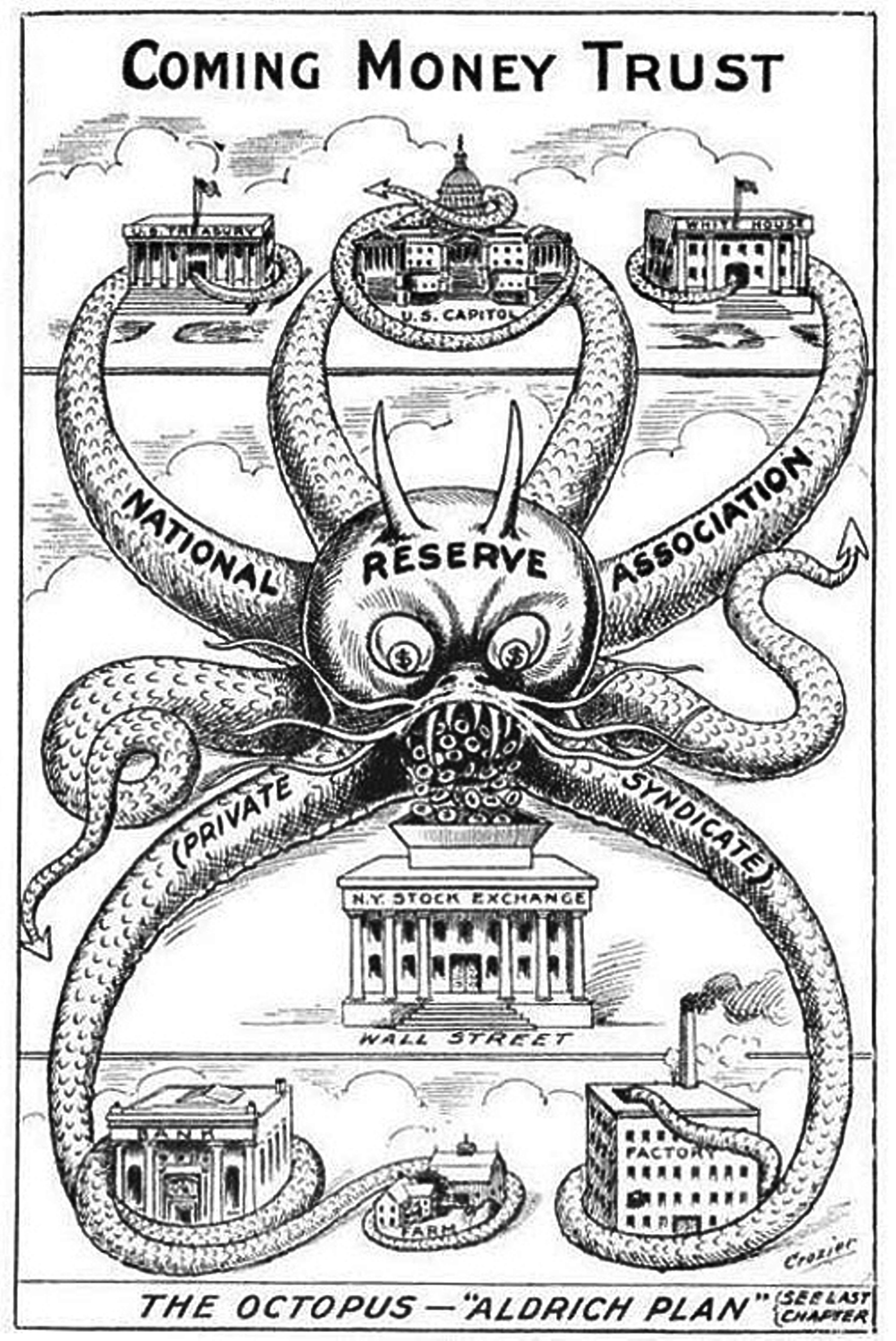 103 Years Later, Wall Street Turned Out Just As One Man Predicted